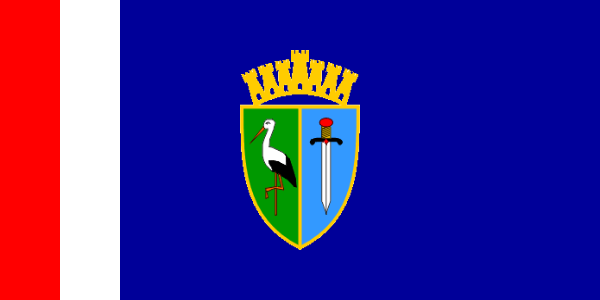 Flag of Sisak-Moslavina County, Croatia. While the image on the official site has horizontal stripes along the top edge of the flag (like in the first revision below), the text underneath it says the stripes should be vertical and on the left (hoist) side.